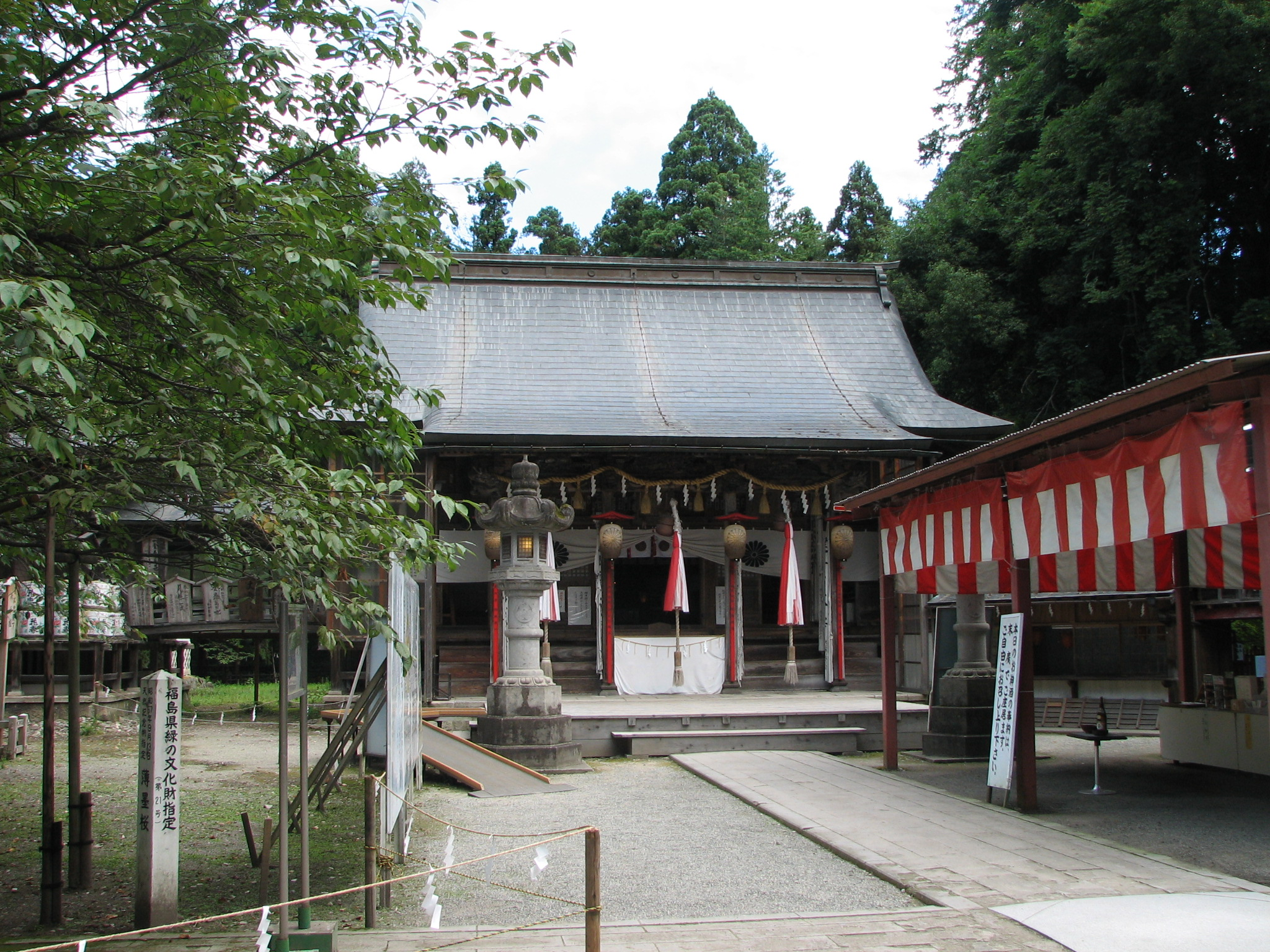 the haiden of Isasumi Shrine, Aizu-Misato, Fukushima, Japan 伊佐須美神社本殿（福島県大沼郡会津美里町）